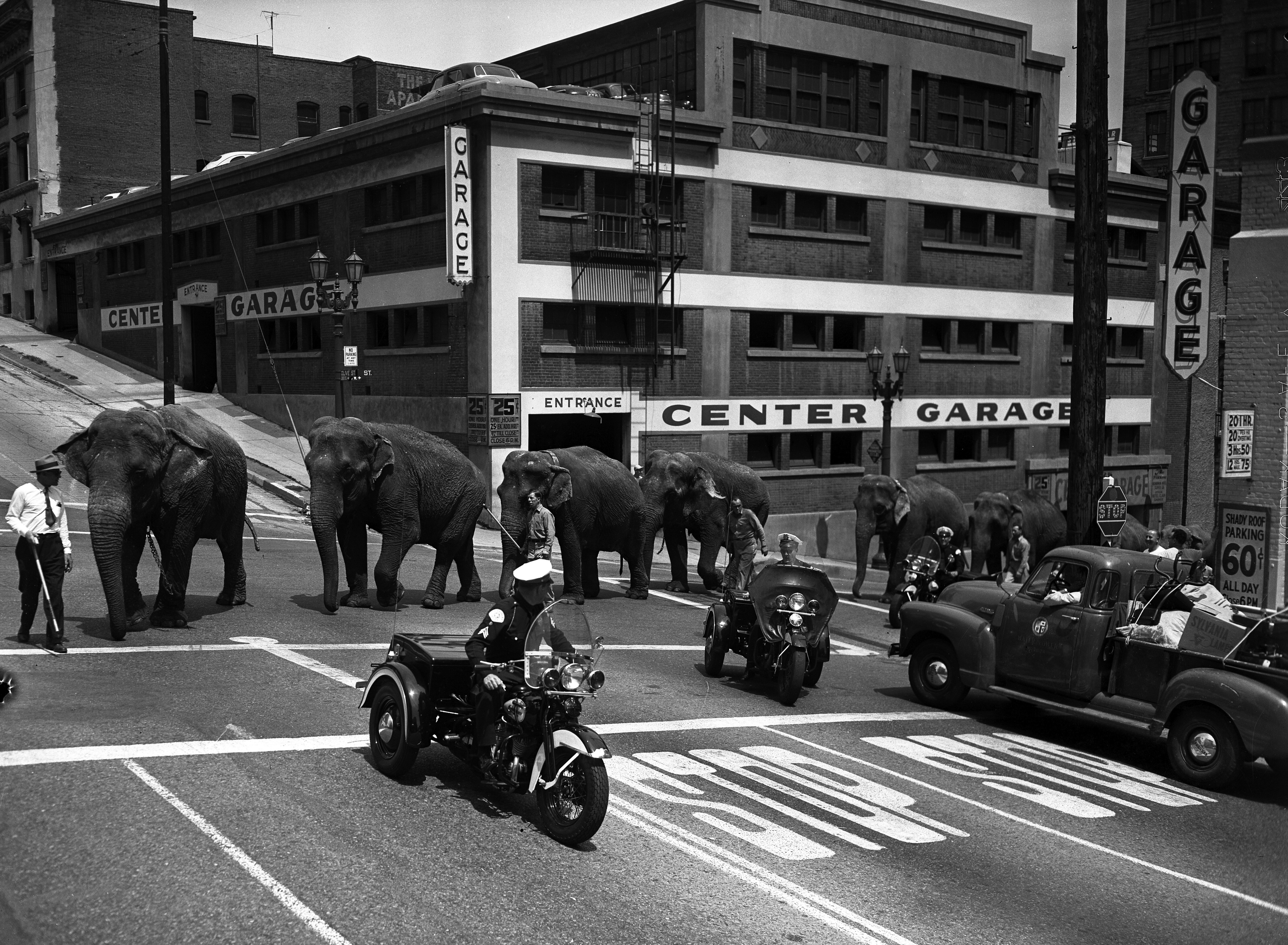 Title: Elephants from Cole Brothers Circus crossing Olive Street with police escort in Los Angeles, Calif., 1953